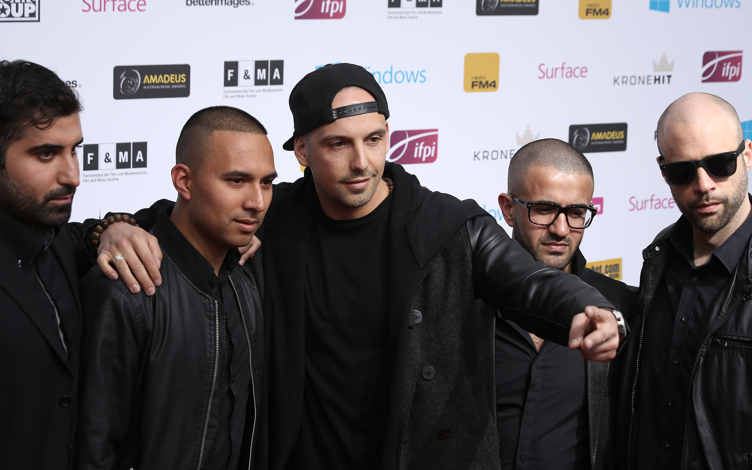 RAF 3.0 and Joshi Mizu at the Amadeus Austrian Music Award 2014 at Volkstheater in Vienna